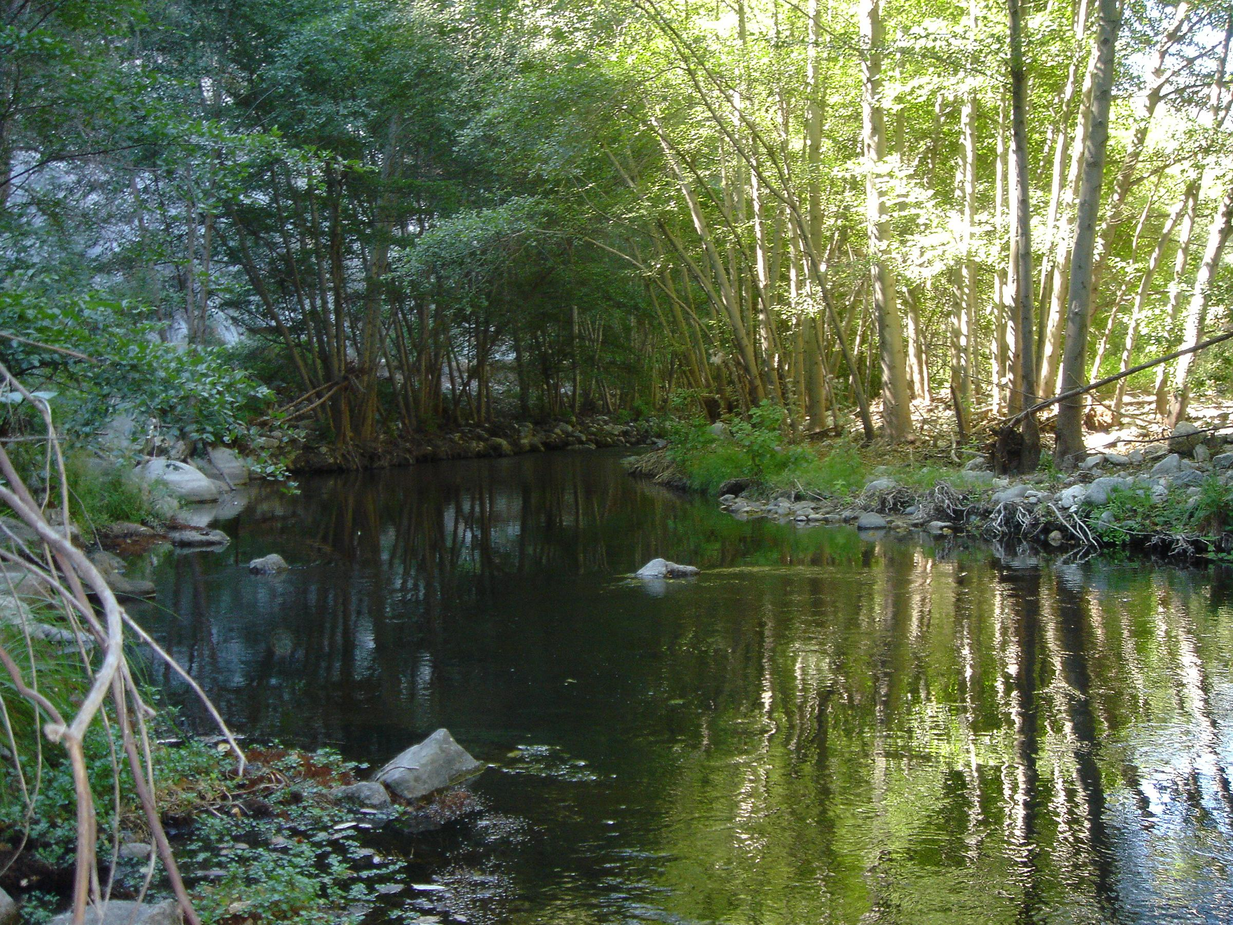 A wooded section of the San Gabriel River in the Angeles National Forest.